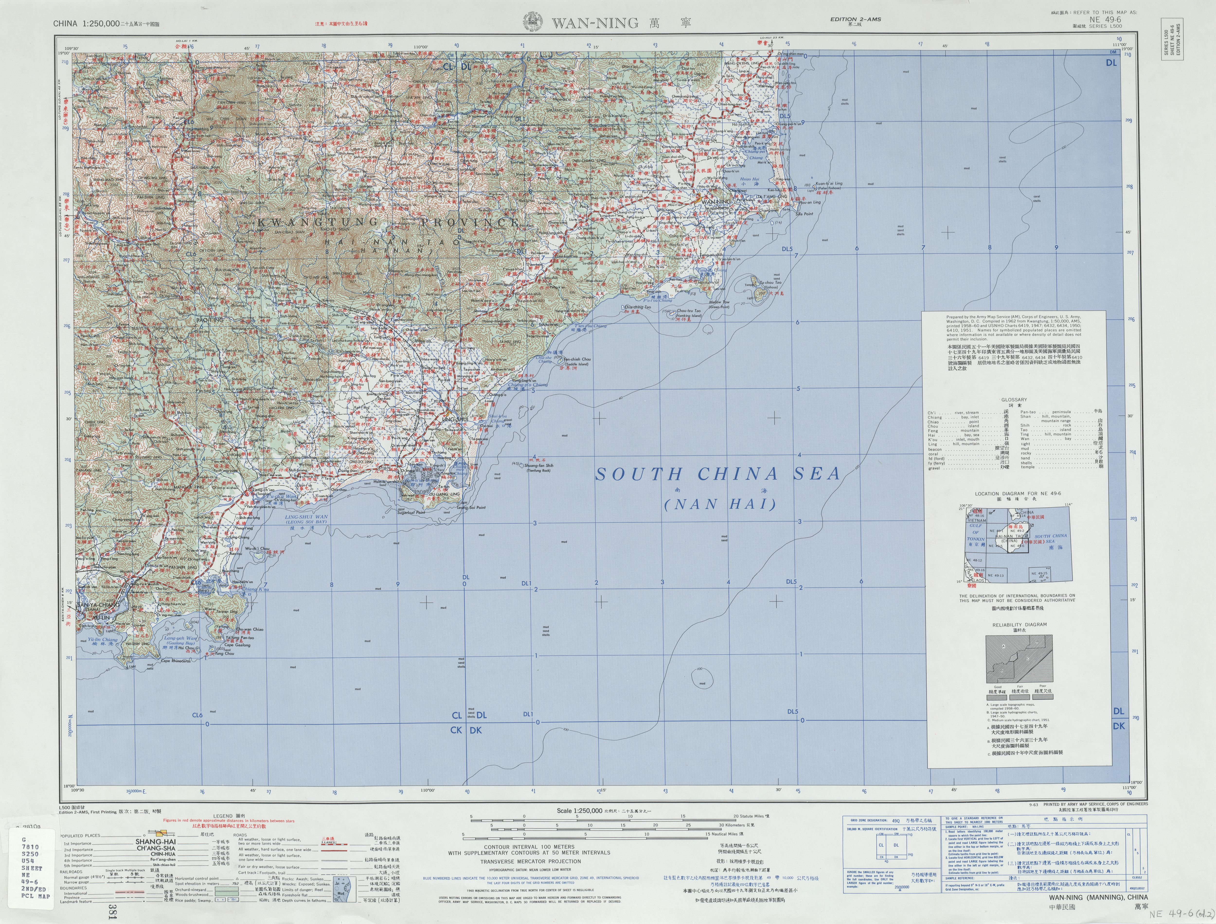 Map of Wanning (WAN-NING 萬寧) area, Hainan